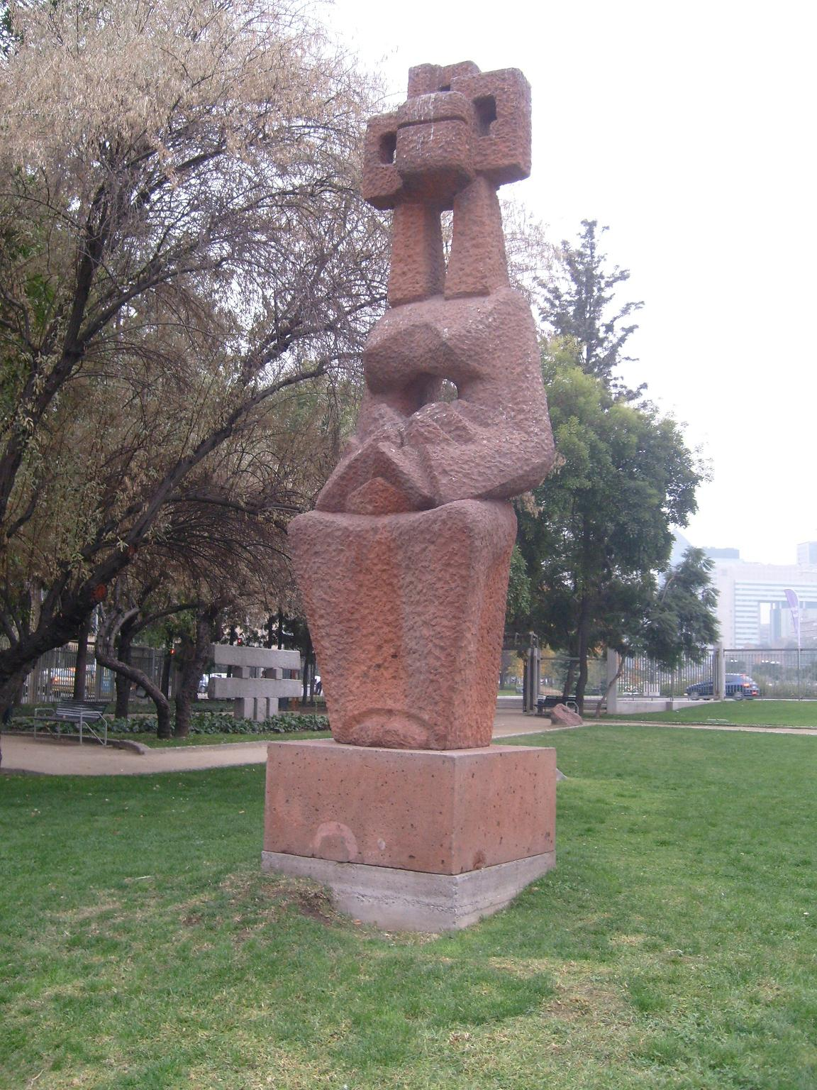 Marta Colvin Pachamama (aymara Mother Earth), Sculptures Park, Providencia Ave., Santiago Chile